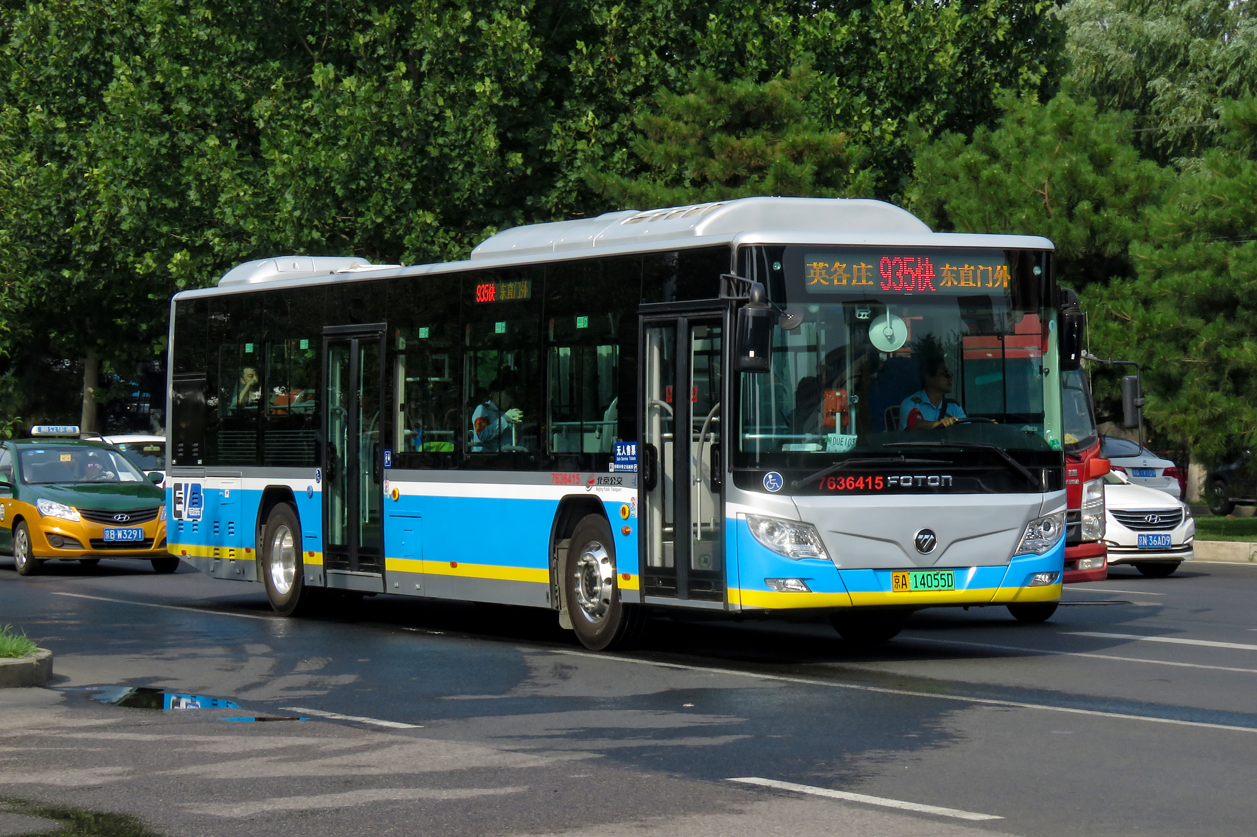 Route 935 and its express has recently put some BJ6123EVCA-48 in use.